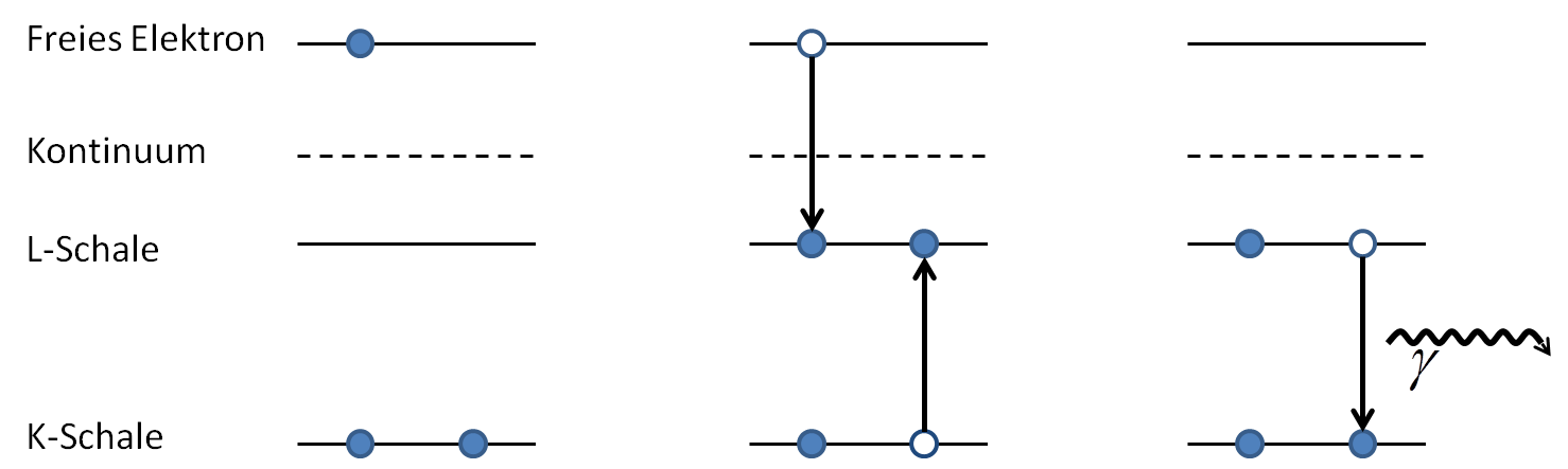 This picture shows the schematic process of dielectronic recombination.